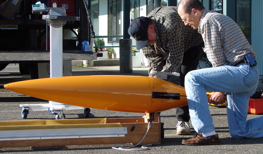 Dr. Bruce Howe and engineer Bill Felton prepare a Seaglider for deployment